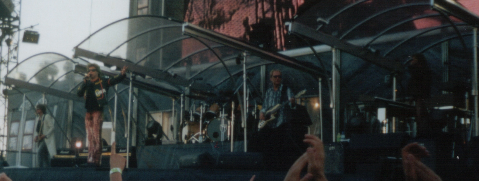 Bon Jovi live - Recorded at Cannstatter Wasen, Stuttgart